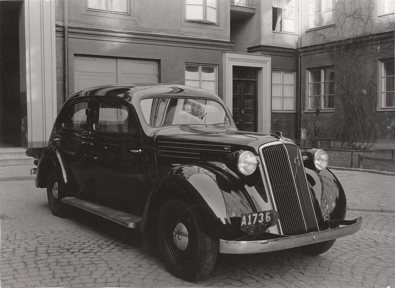 DIG92734 Volvo PV51 1938. Photo: Magnusson & Svensson